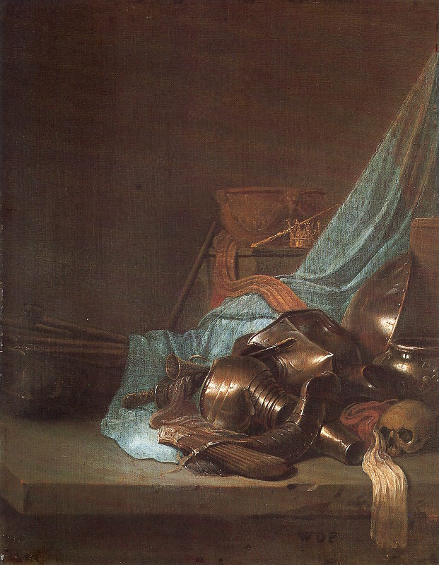 Still Life with Weapons and Banners